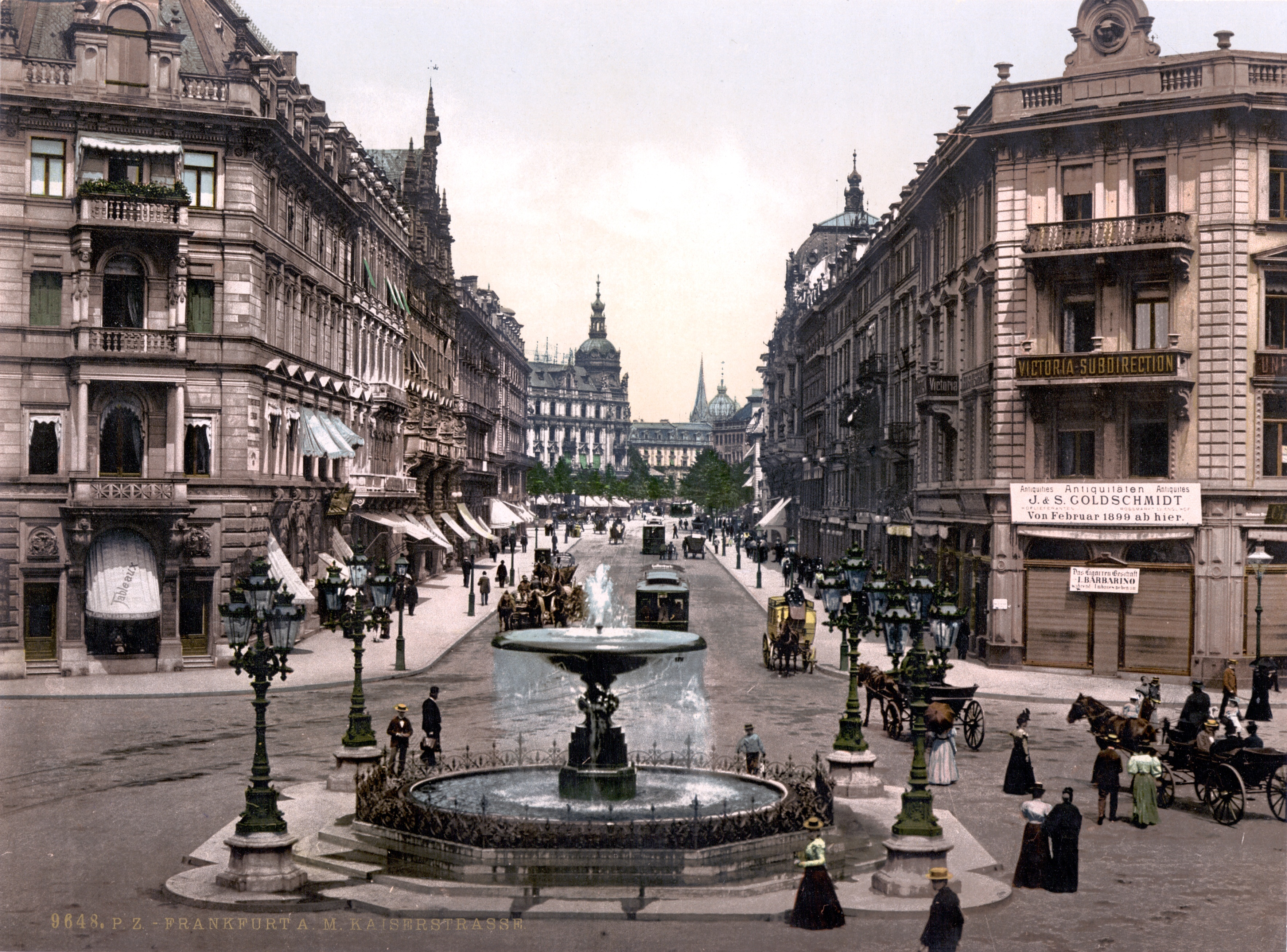 Kaiserstraße and Kaiserplatz in Frankfurt am Main, around 1899. View to northeast to Roßmarkt and Hauptwache. The domed building in the background is Germania Builing, finished in 1888. Photograph cannot be not younger than 1900 as the horse trams were replaced by electric trams in this year. Therefore, taller street lamp masts were erected to hold the overhead wires.